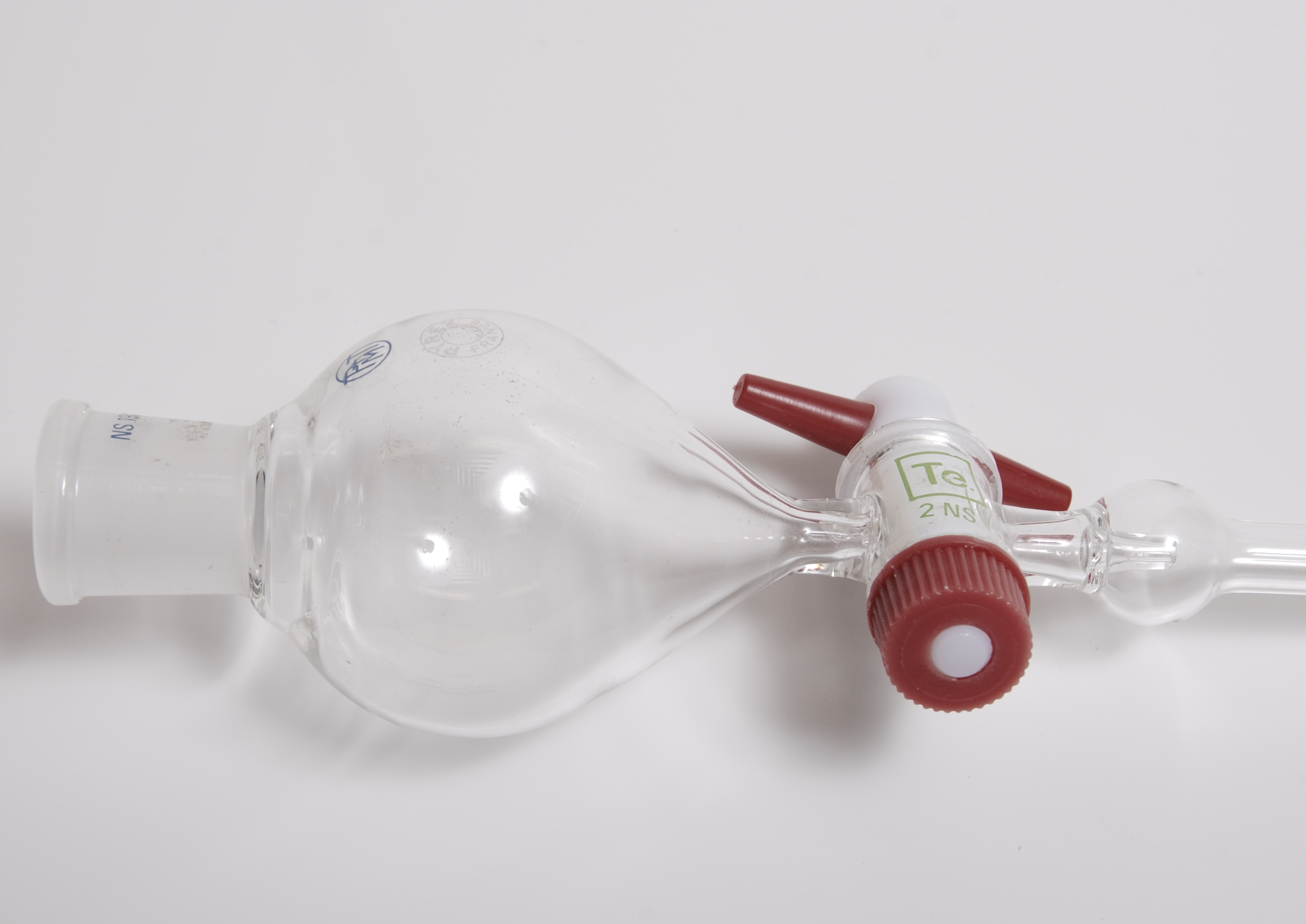 Round separating funnel.